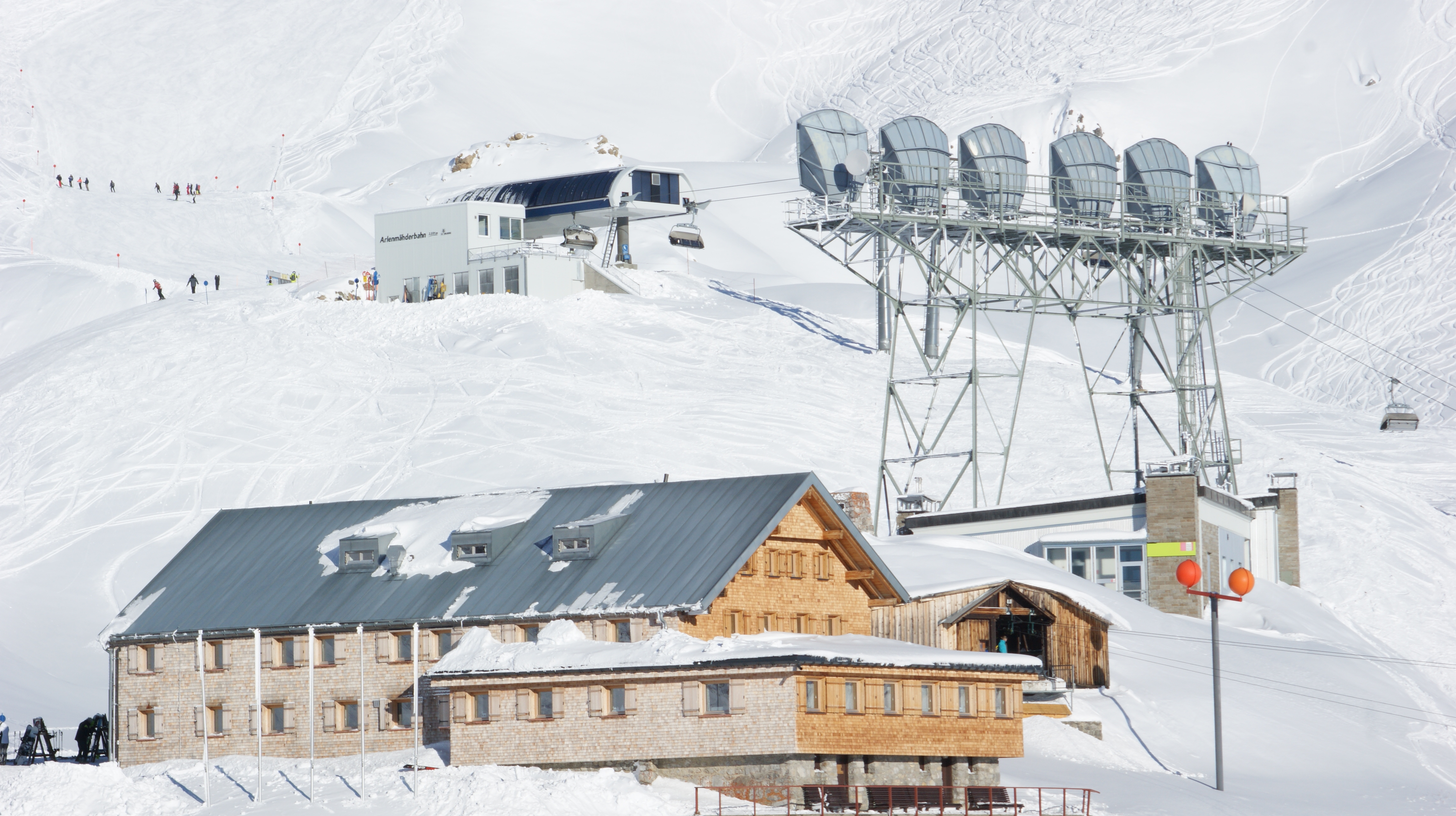 Arlenmähderbahn in Klösterle, Vorarlberg, Austria. In the foreground the Ulmerhütte.